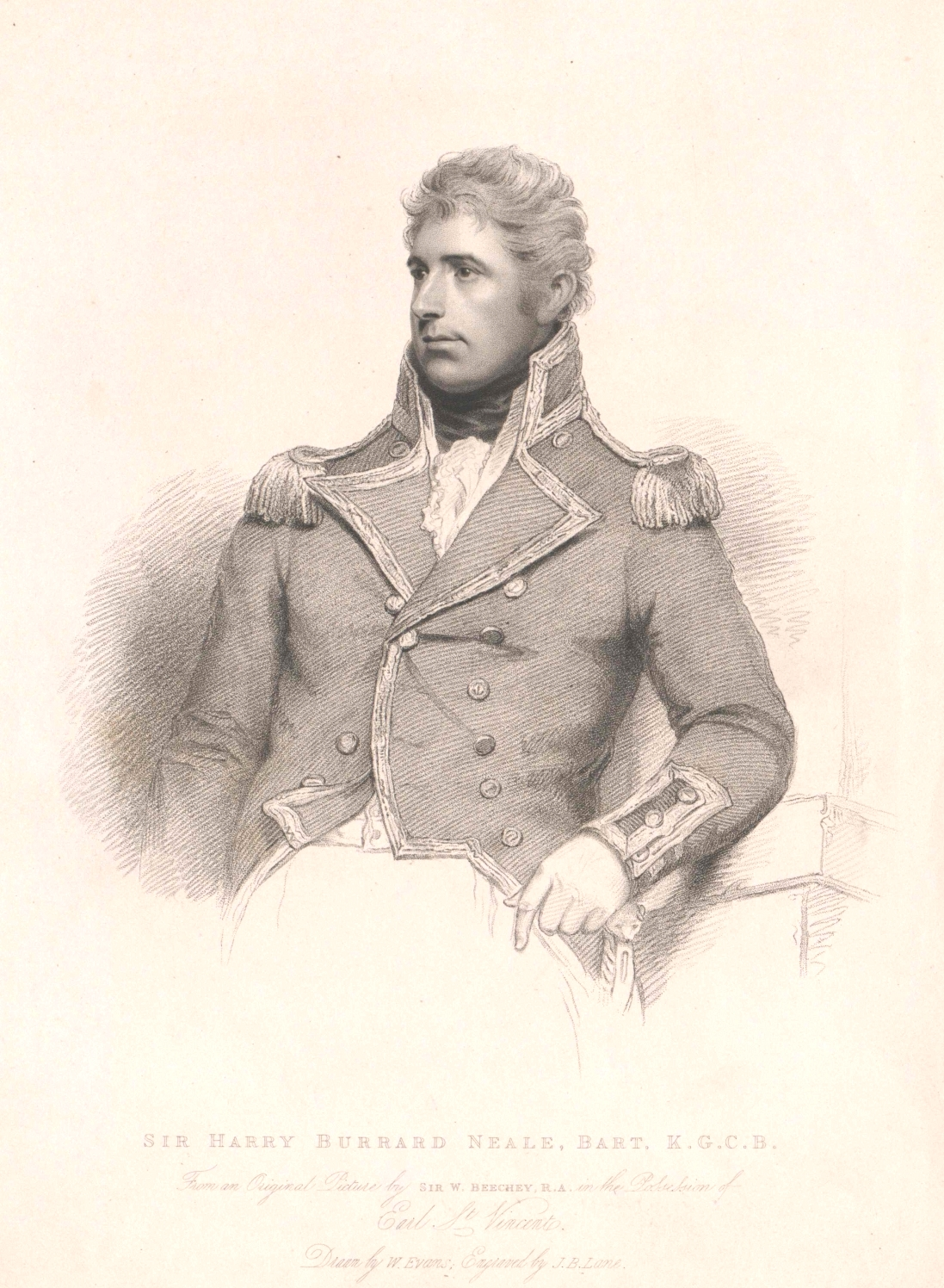 Sir Harry Burrard-Neale (* 1765; † 1840), British Admiral crayon manner engraving, published 31 August 1822 Sheet: 415 x 312 mm; Mount: 557 mm x 405 mm paper size